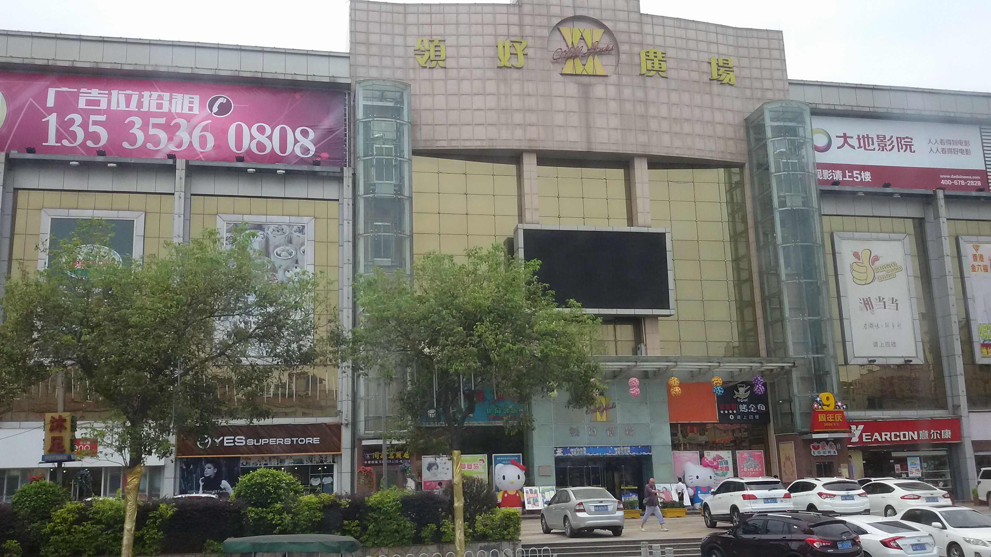 Well Links 粵語: 領好 廣場